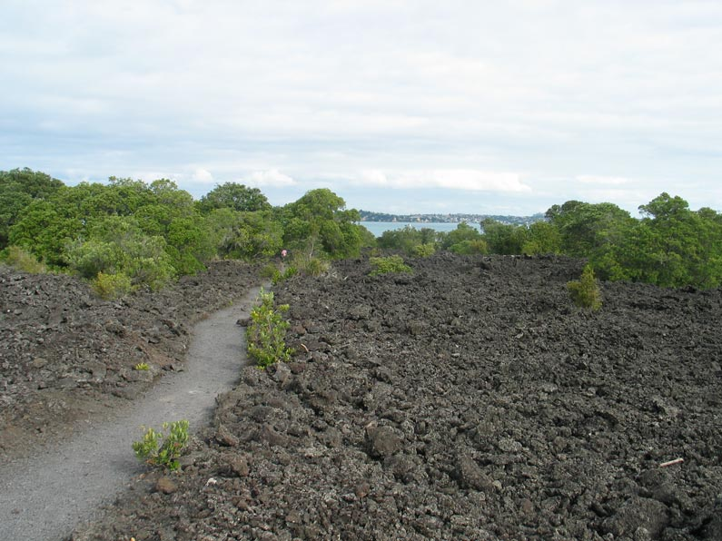 Lava field with path and encroaching vegetation. Note that despite appearances this is loose rock, not ploughed-up soil. See Rangitoto Island article text for details.